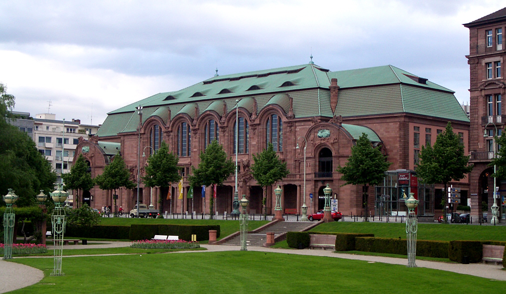 Mannheim, Germany: Rosengarten congress centre and concert hall at Friedrichsplatz